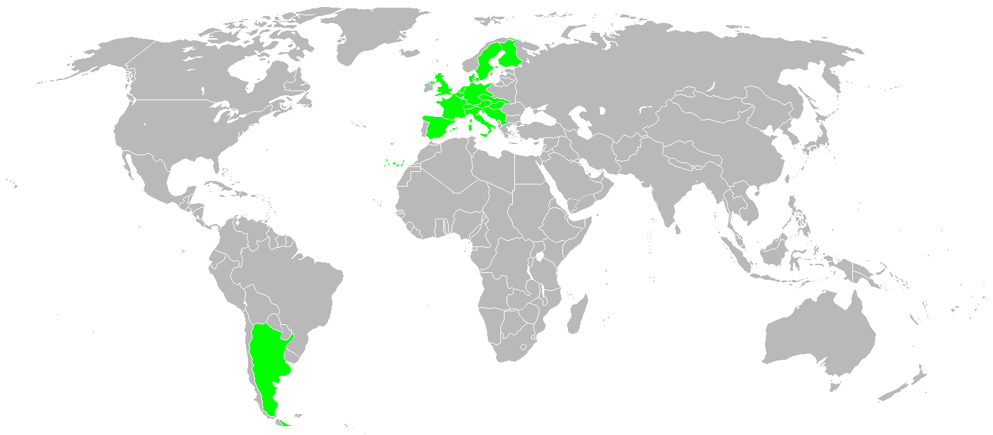 Participants of the en:1st Chess Olympiad